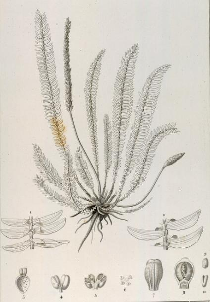 Illustration of Hydrostachys distichophylla